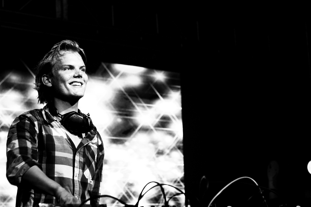 UWO O-Week finale